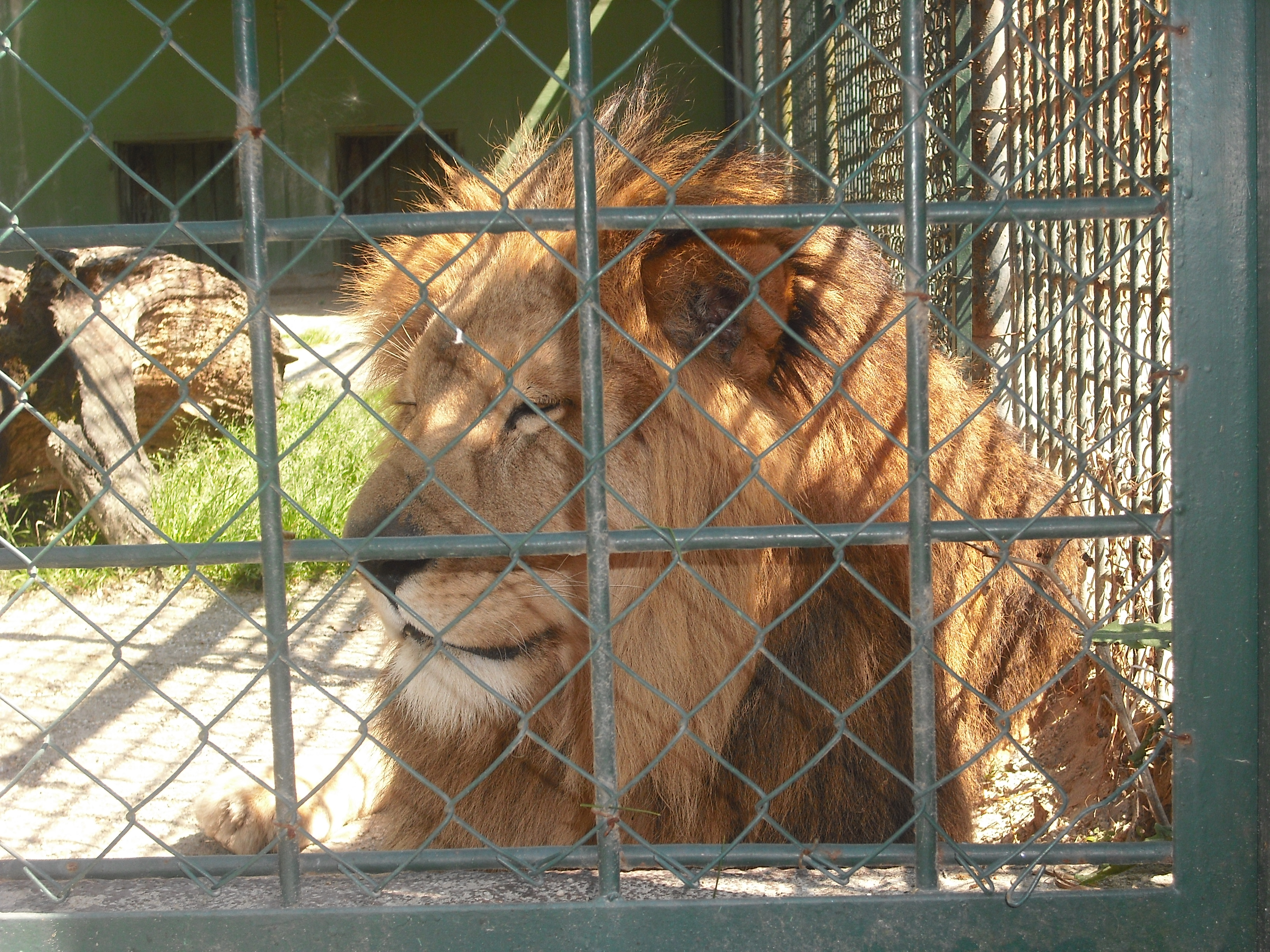 A lion_Zagreb Zoo_Croatia